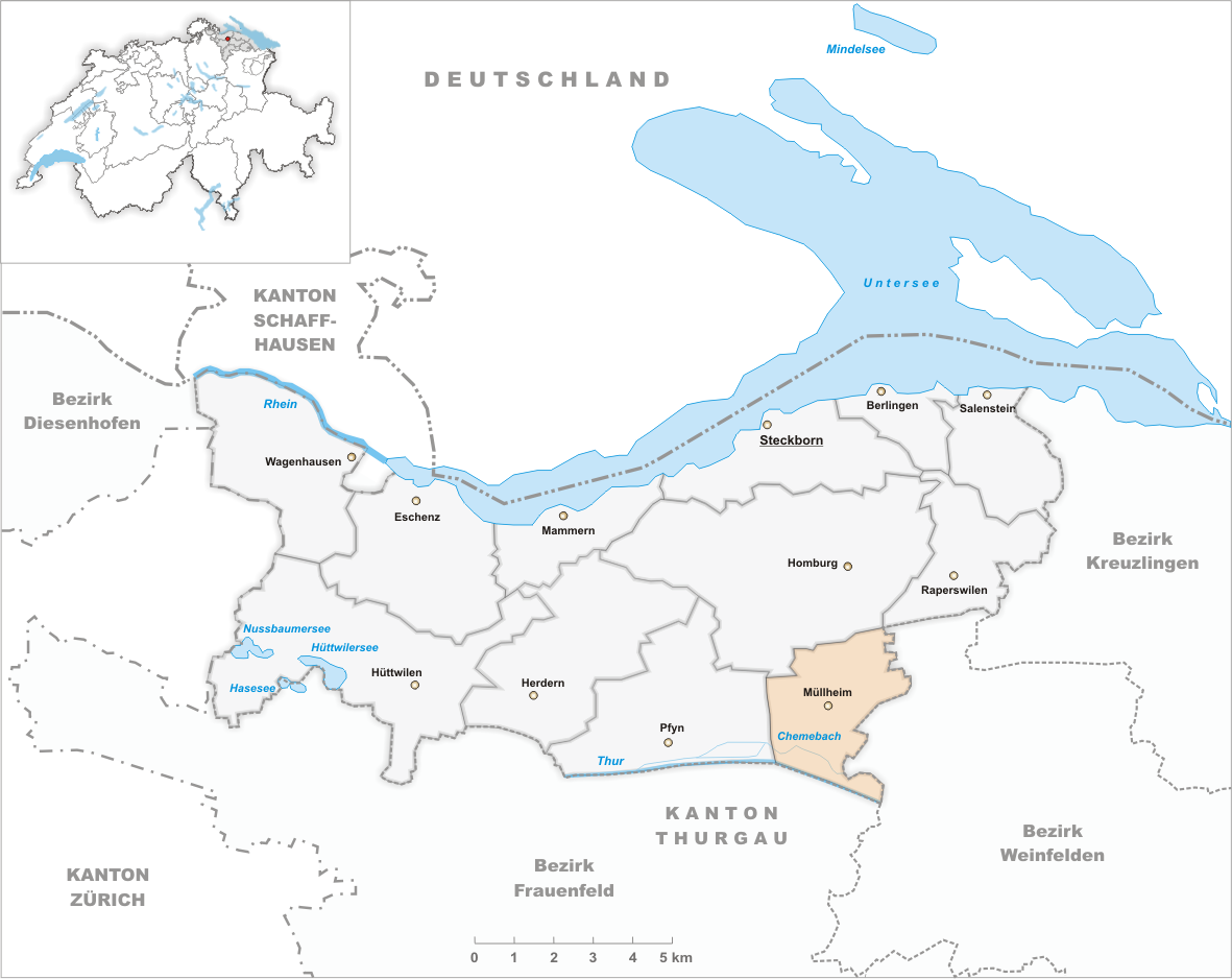 Municipality Müllheim